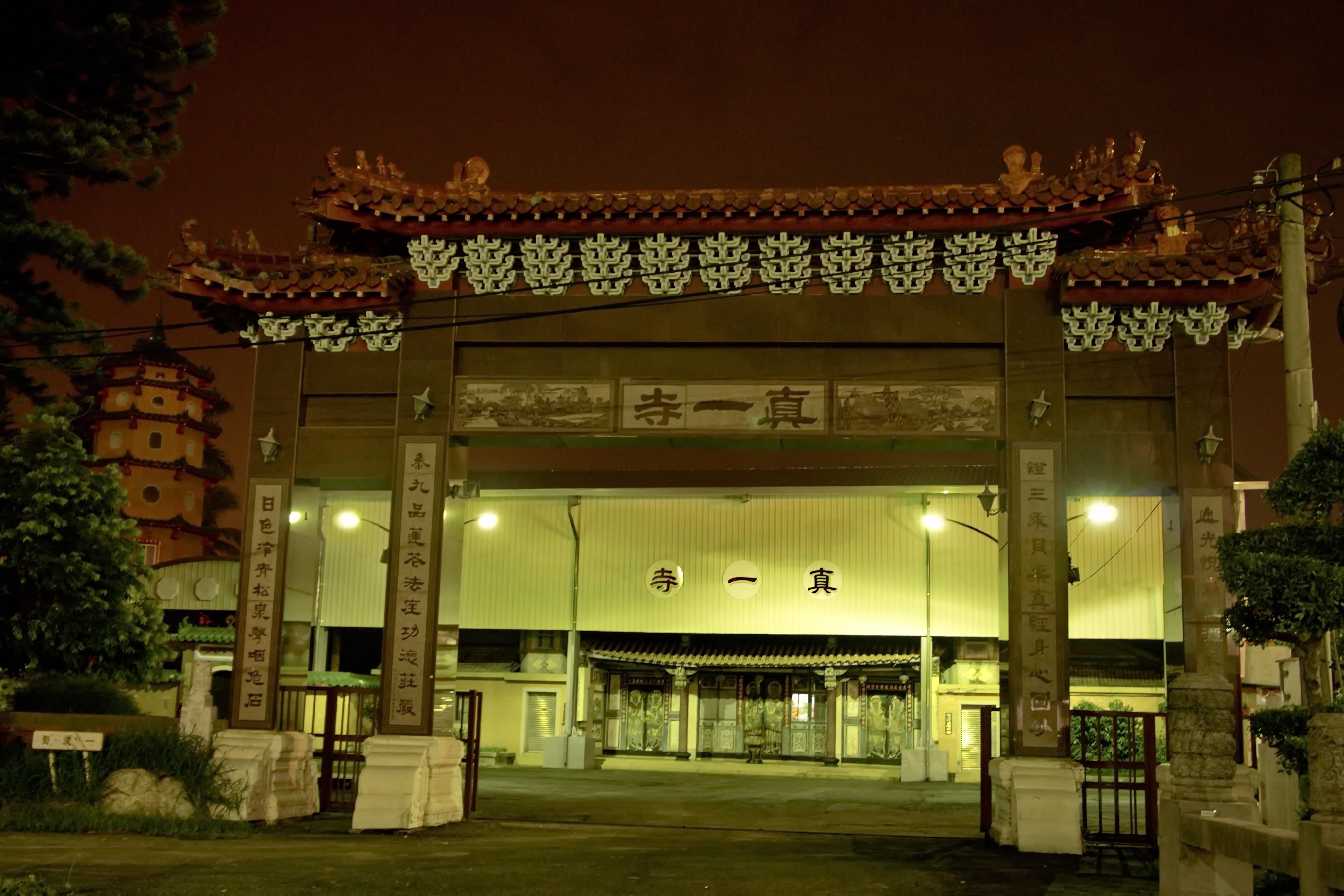 Jen-yi Temple under restoration, Douliu, Yunlin, Taiwan.